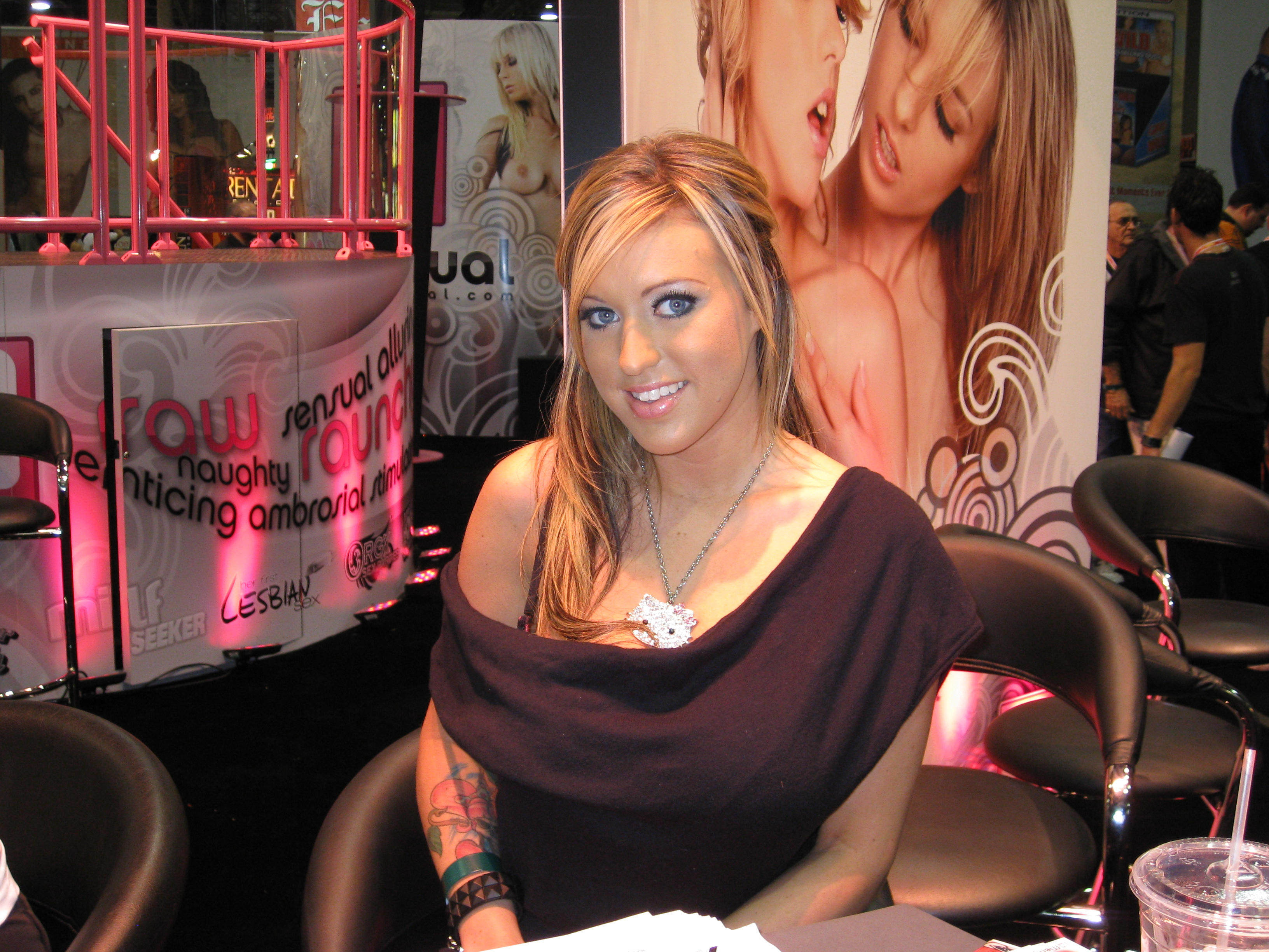 Memphis Monroe